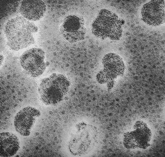 EM of a Plasmavirus